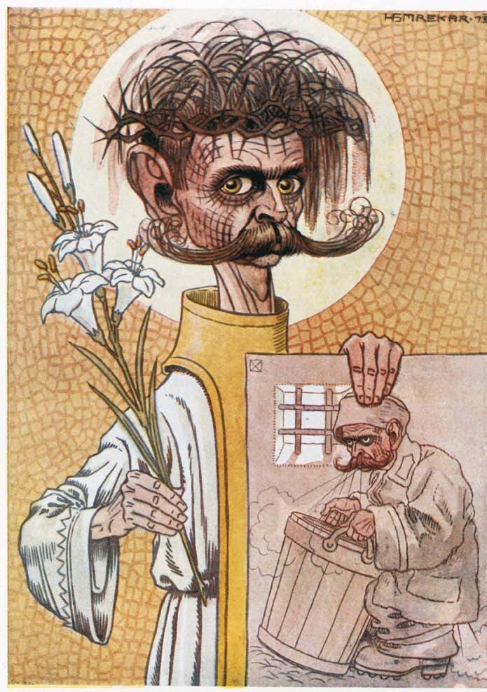 Ivan Cankar as a penitent and prisoner; caricature